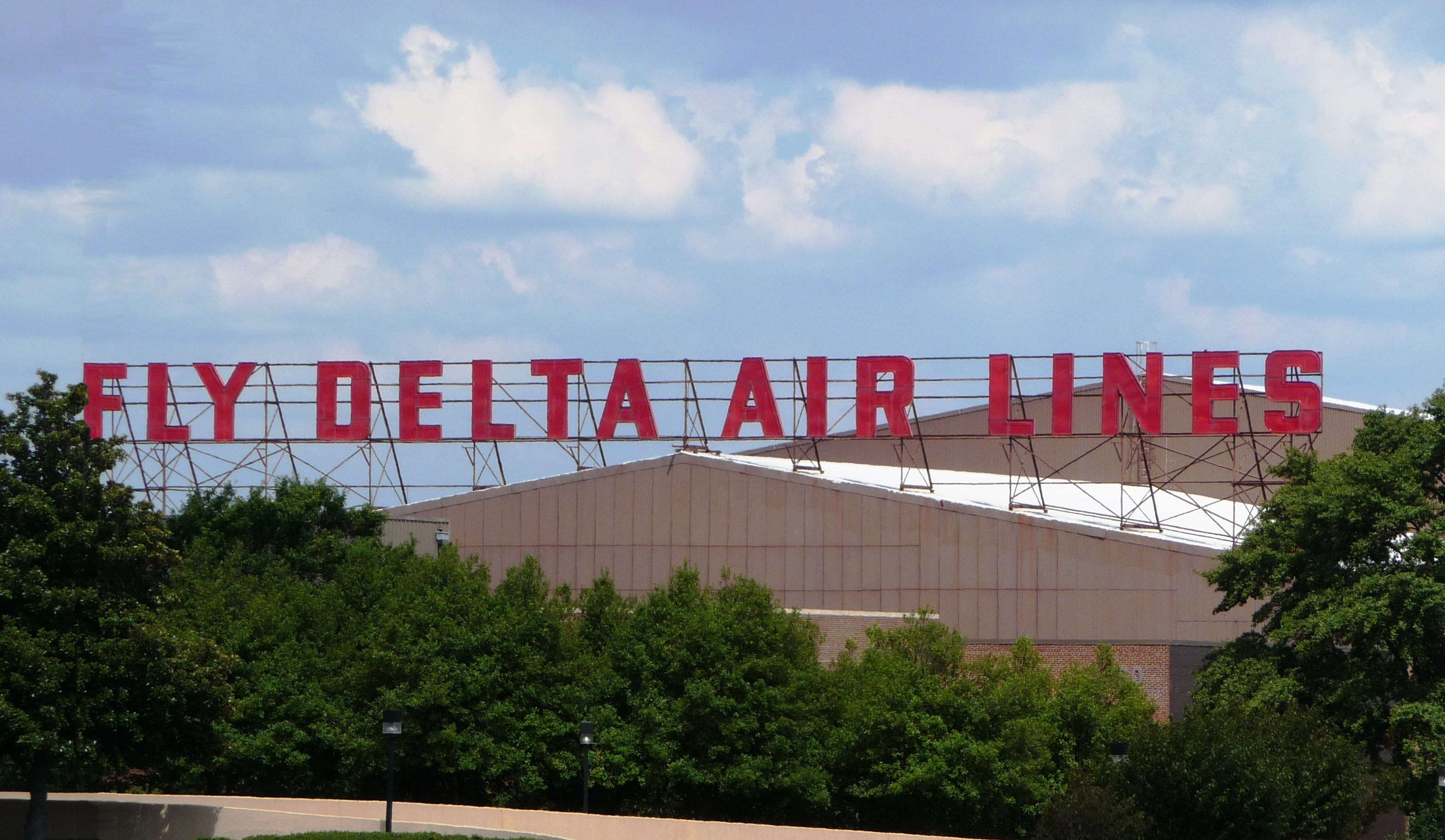 "Fly Delta Air Lines" marker